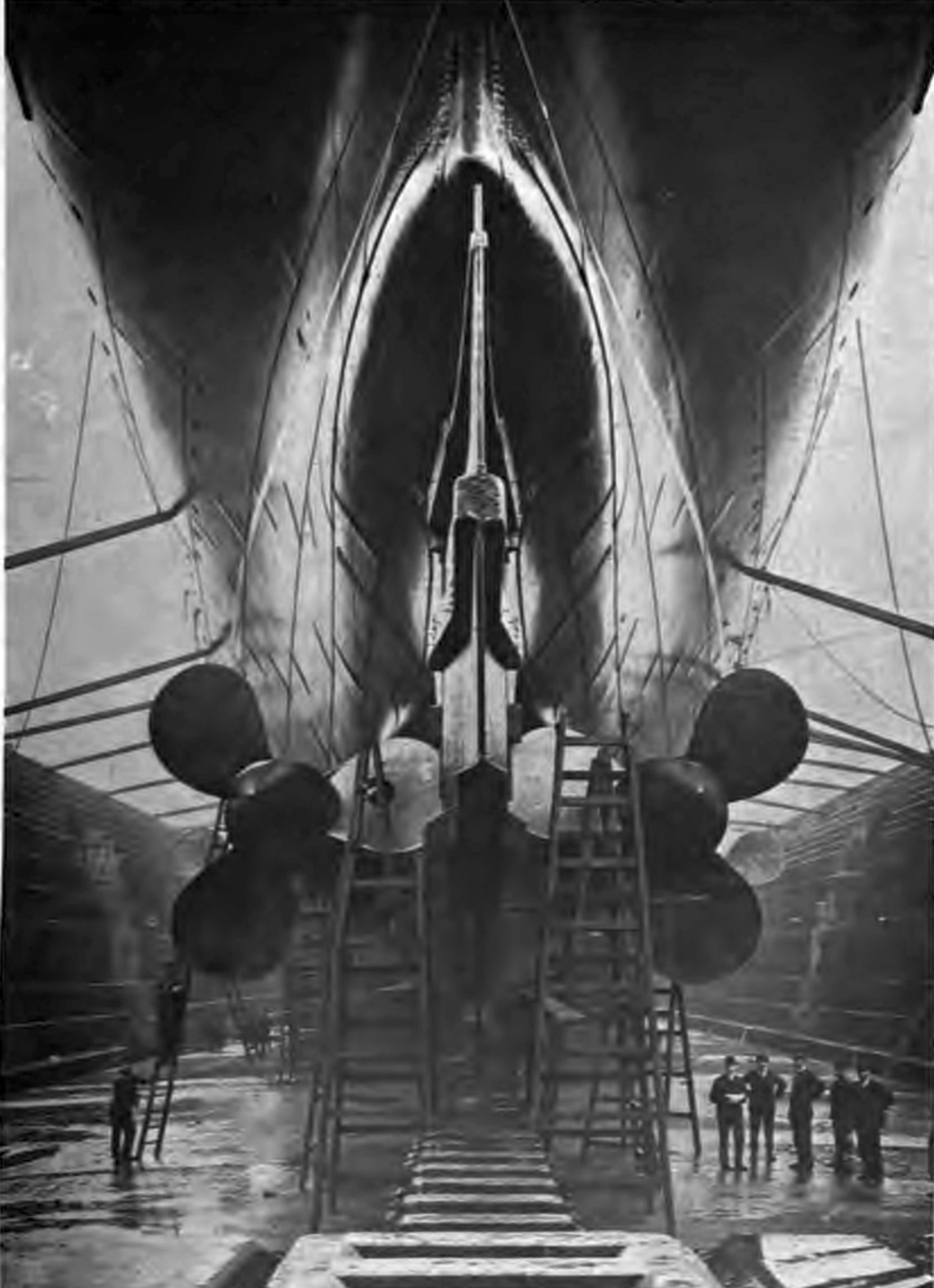 Picture of RMS mauretania in dry dock showing workmen standing around the four propellors.